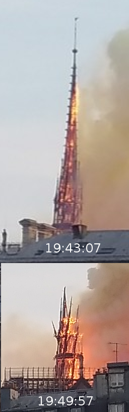 2 Photos showing the big arrow of Notre-Dame en feu, shortly before its total collapse in the evening of April 15, 2019. This arrow was made of a frame of 500 tons of wood, covered with 250 tons of lead plates (oxidized on the surface). At this temperature the lead (toxic metal and source of lead poisoning) liquefies, then is partially sublimed in vapor and nanoparticles, source of toxic smoke